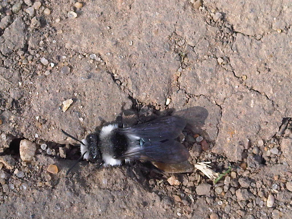 Andrena cineraria in London, England.